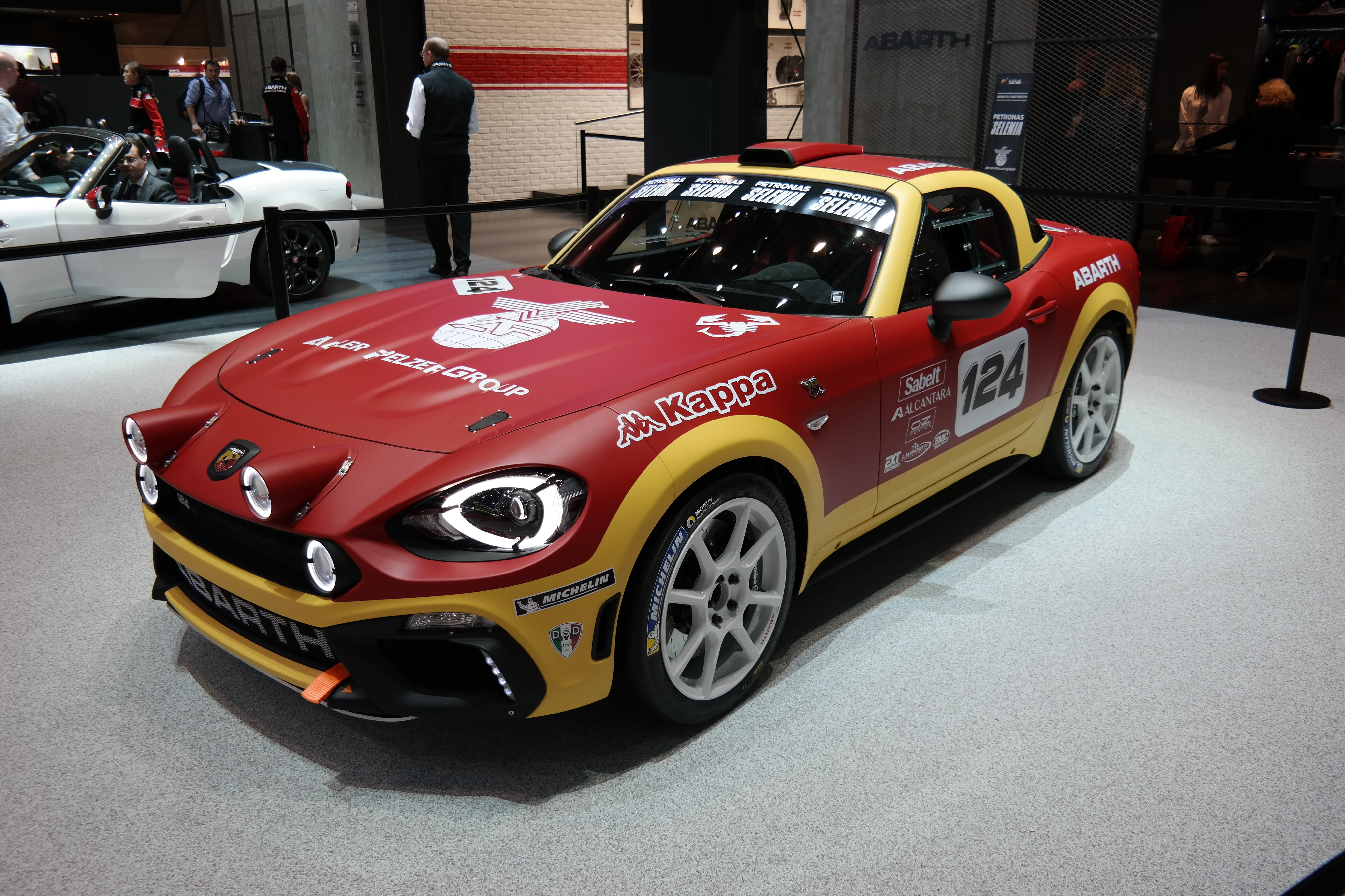 Geneva Motor Show 2016 (photo taken on the first press day)